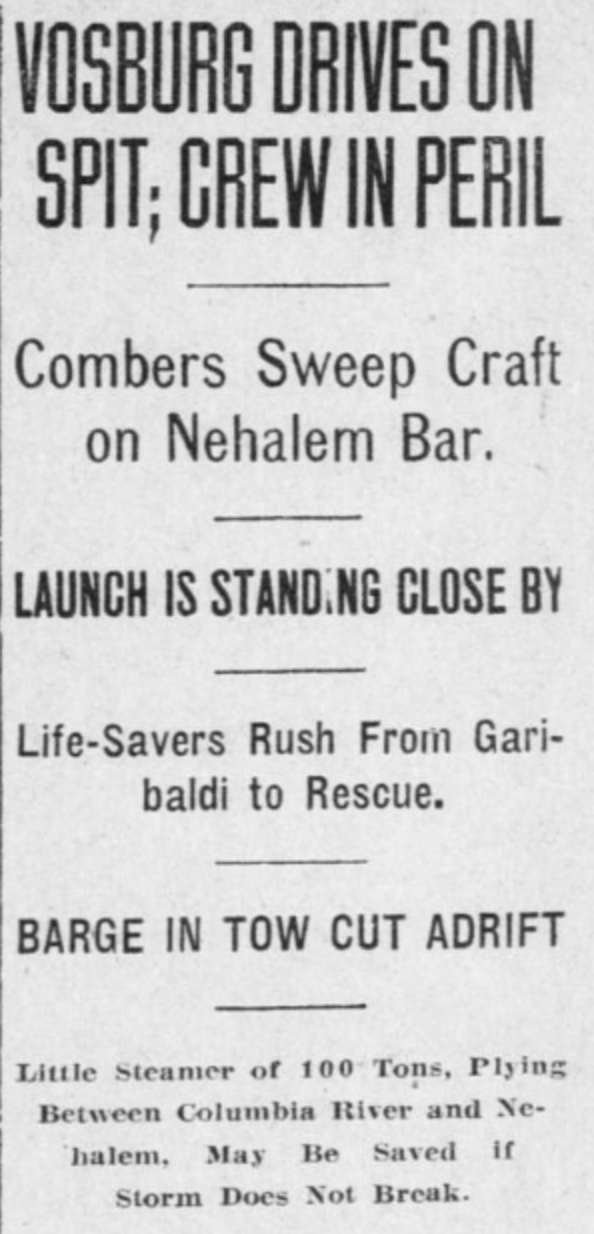 Headline for story regarding the steamer Vosburg running aground.